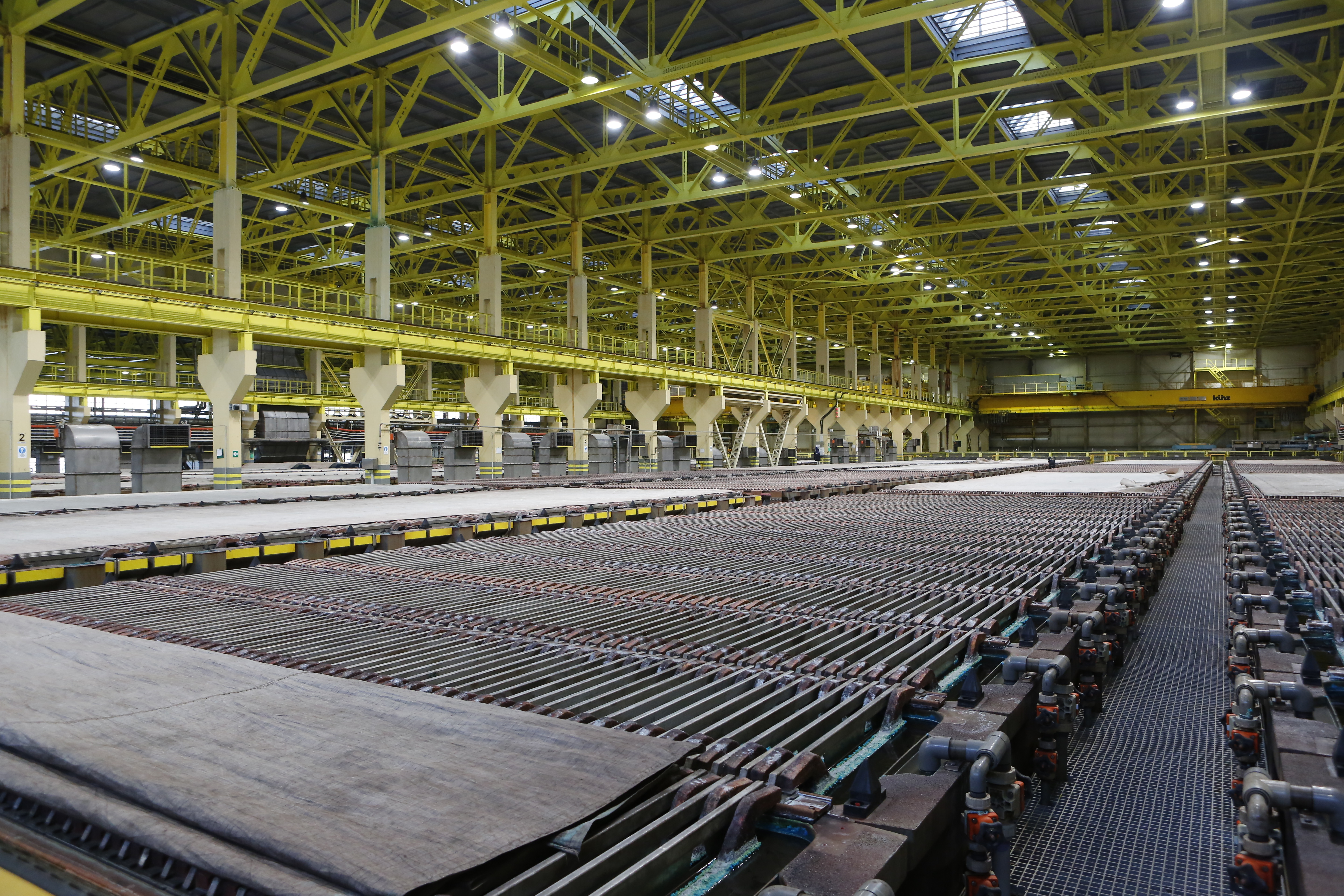 In 2012 the company started up a new tank house with design capacity made up 150ths. t of cathode copper per year.